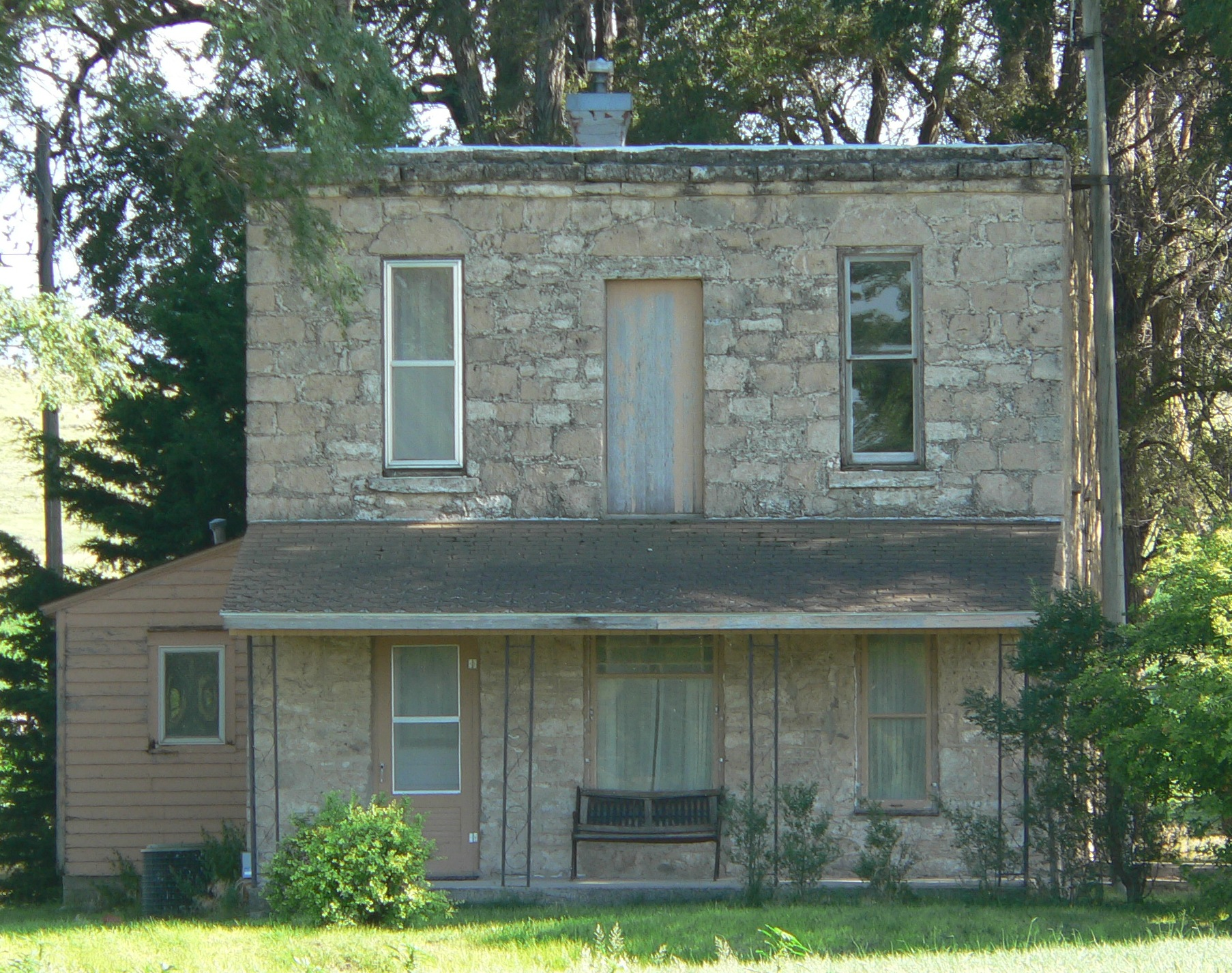 J.M. Daniel House near Hamlet in Hayes County, Nebraska; seen from the north. The limestone house was constructed 1876-1881. It is listed in the National Register of Historic Places.